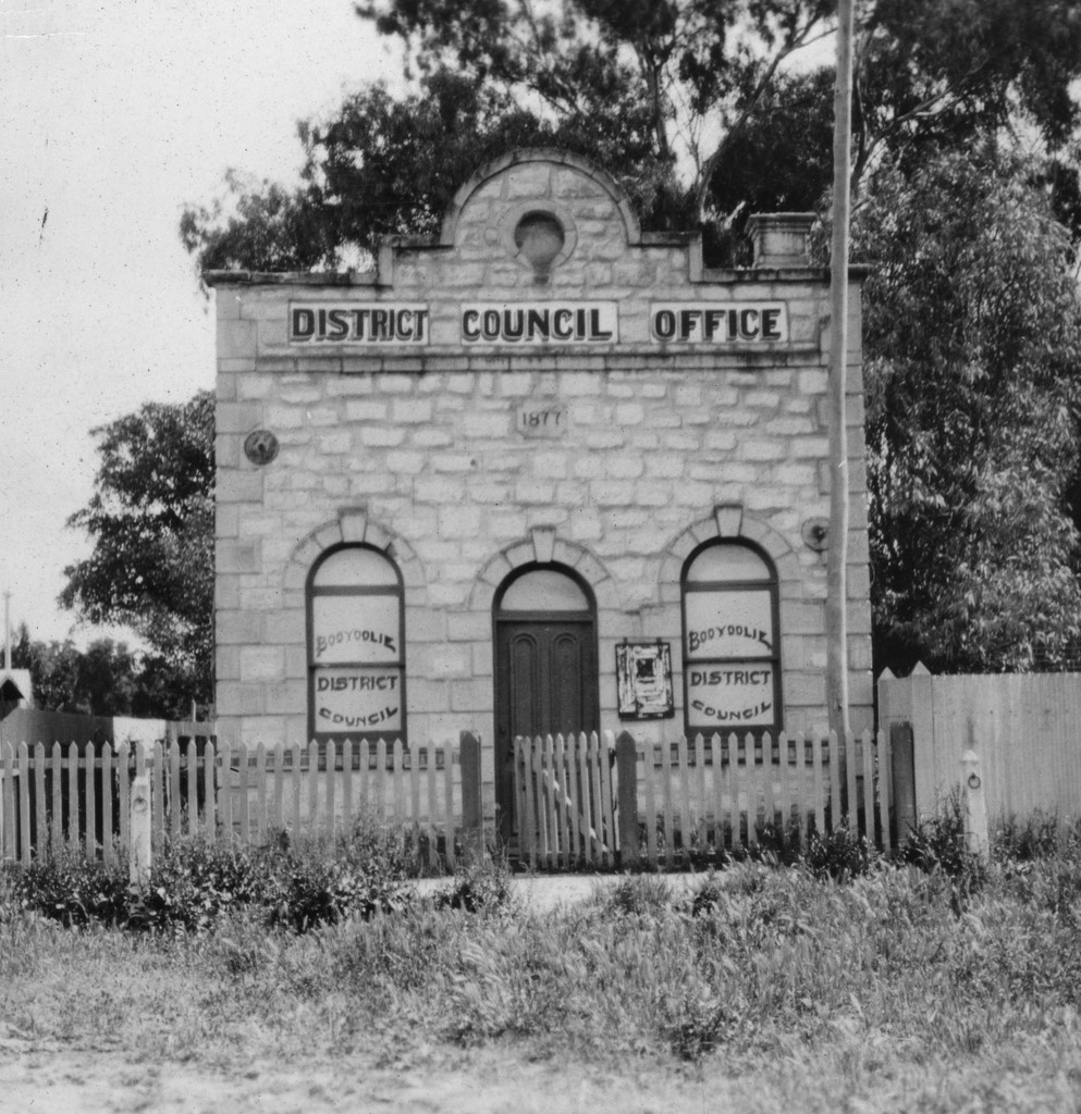 Picture of the 1877 District Council of Booyoolie office.